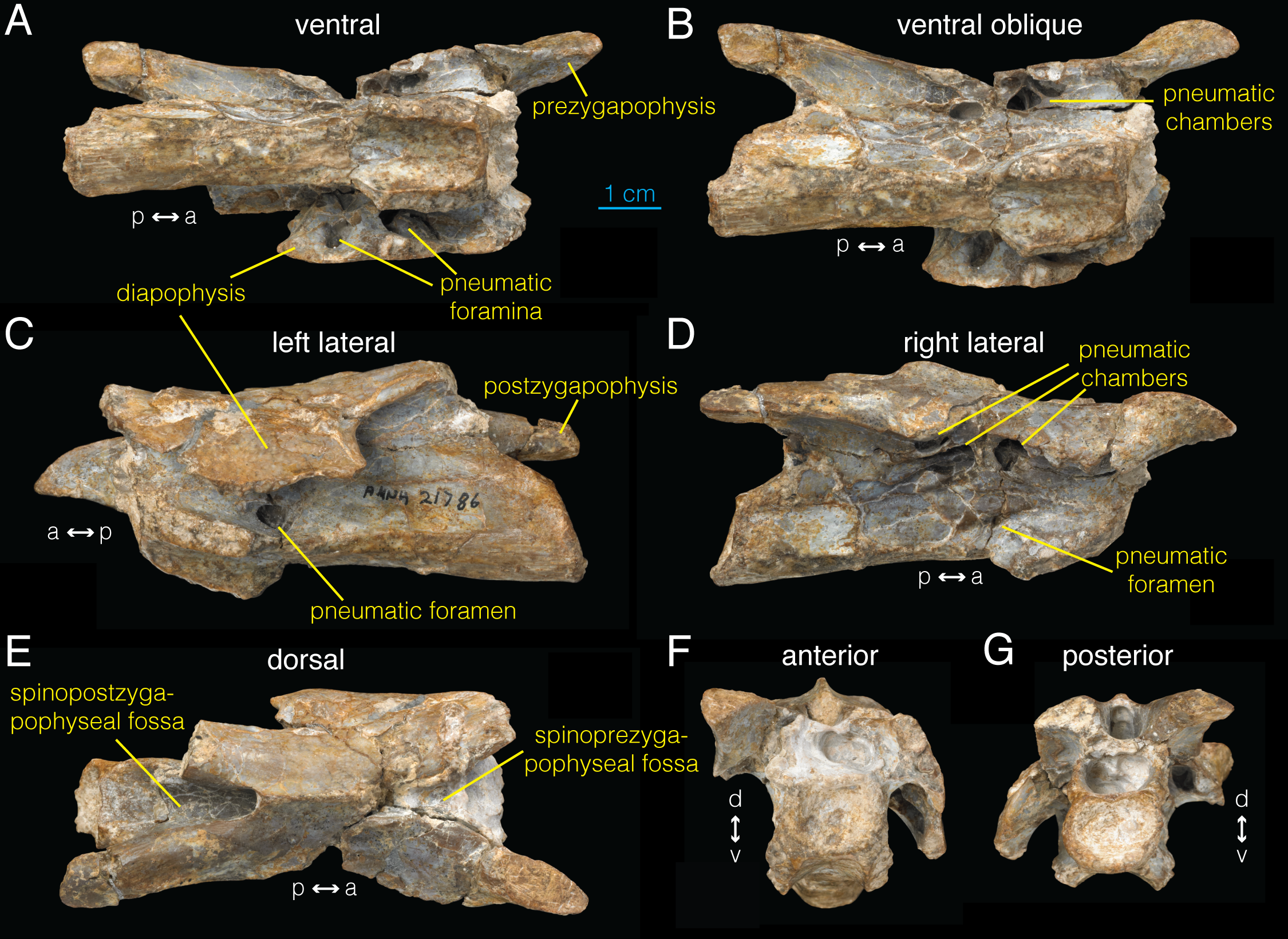 Fig 1. Postaxial cervical vertebra of Archaeornithomimus (AMNH FARB 21786). A, ventral; B, ventral oblique view; C, left lateral; D, right lateral; E, dorsal; F, anterior; G, posterior view.